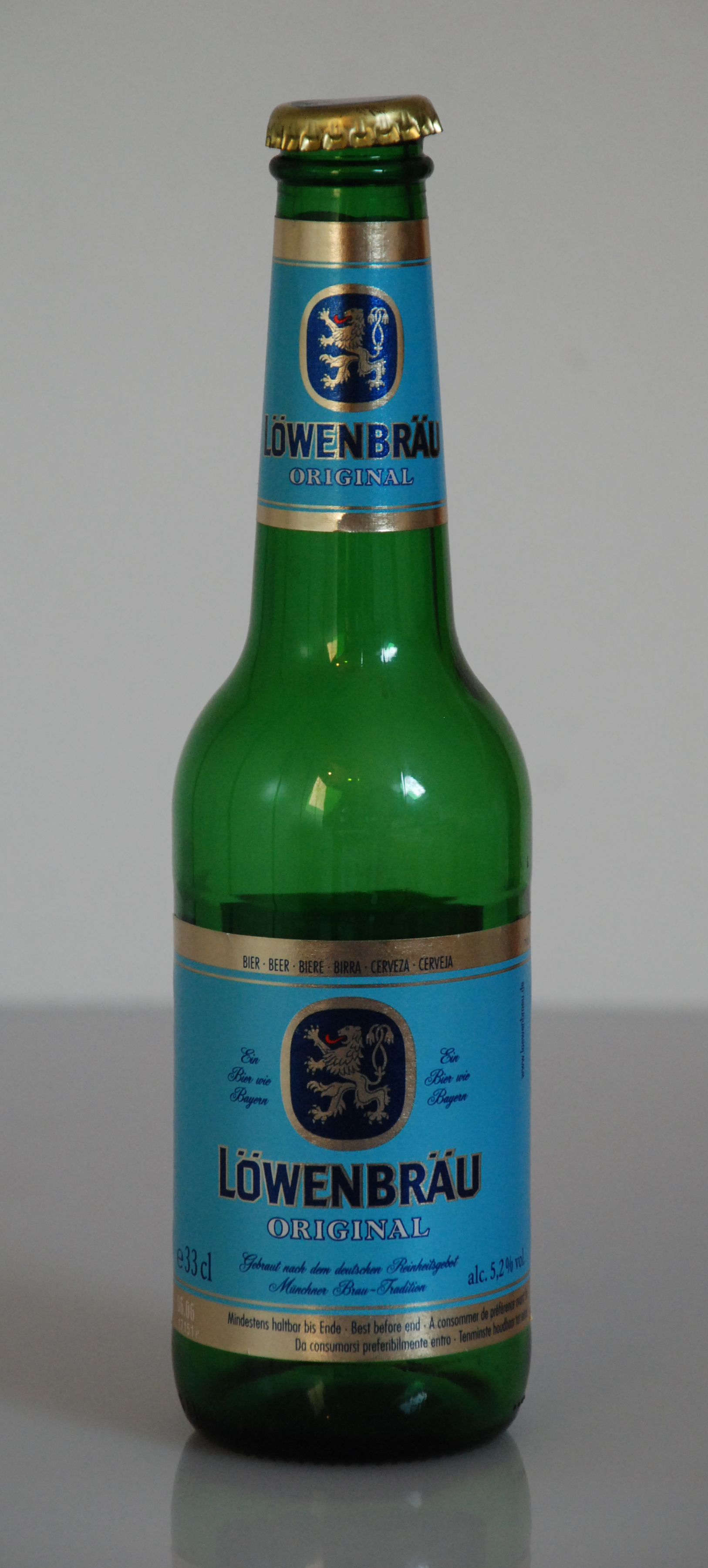 Empty 33cl bottle of Löwenbräu Original beer.